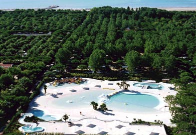 Copyright: Thomson Al Fresco. Credit must be given to where images are used.